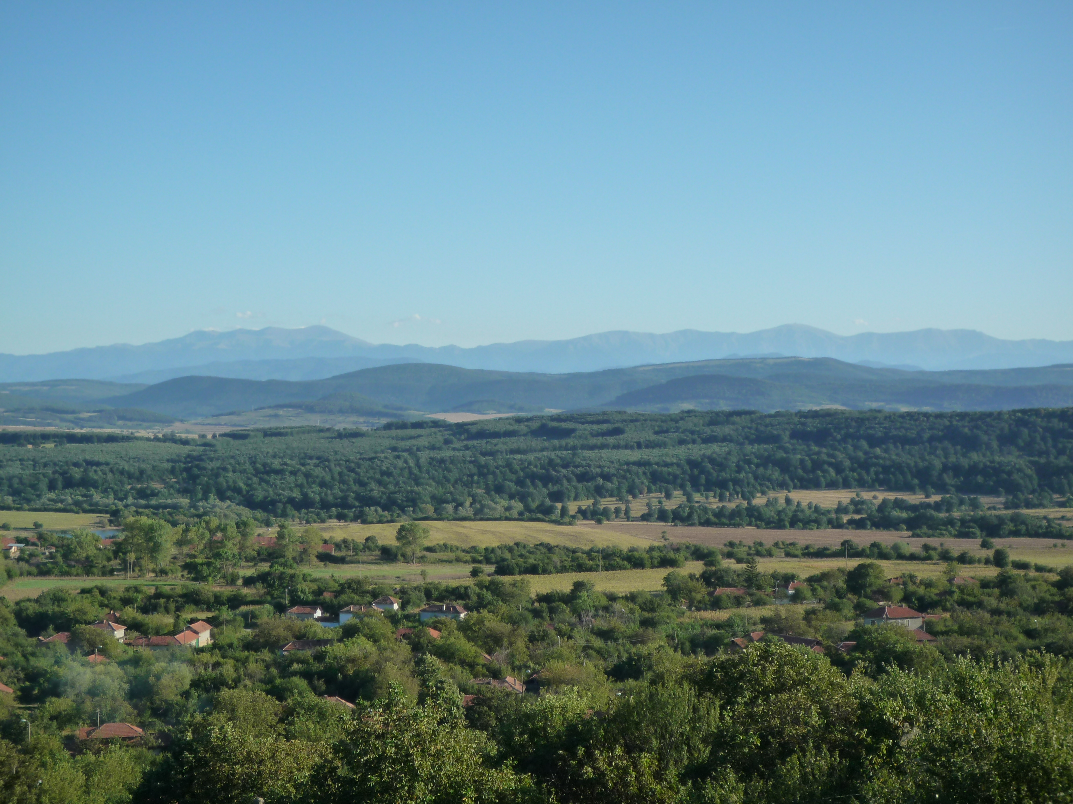 "BALKAN" mountain from Brestovo villages